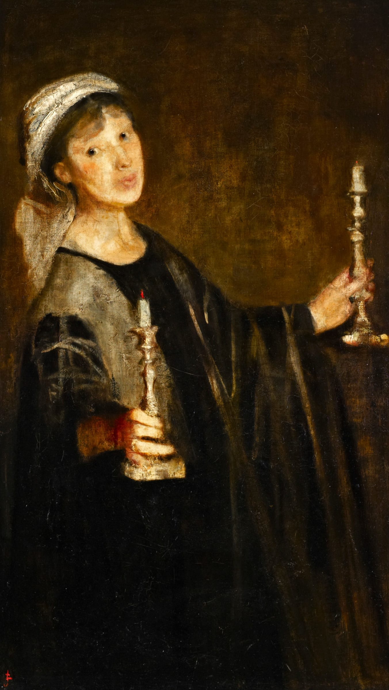 Portrait of Lily Delissa Joseph with two Sabbath candles & her head covered observing the Jewish Sabbath